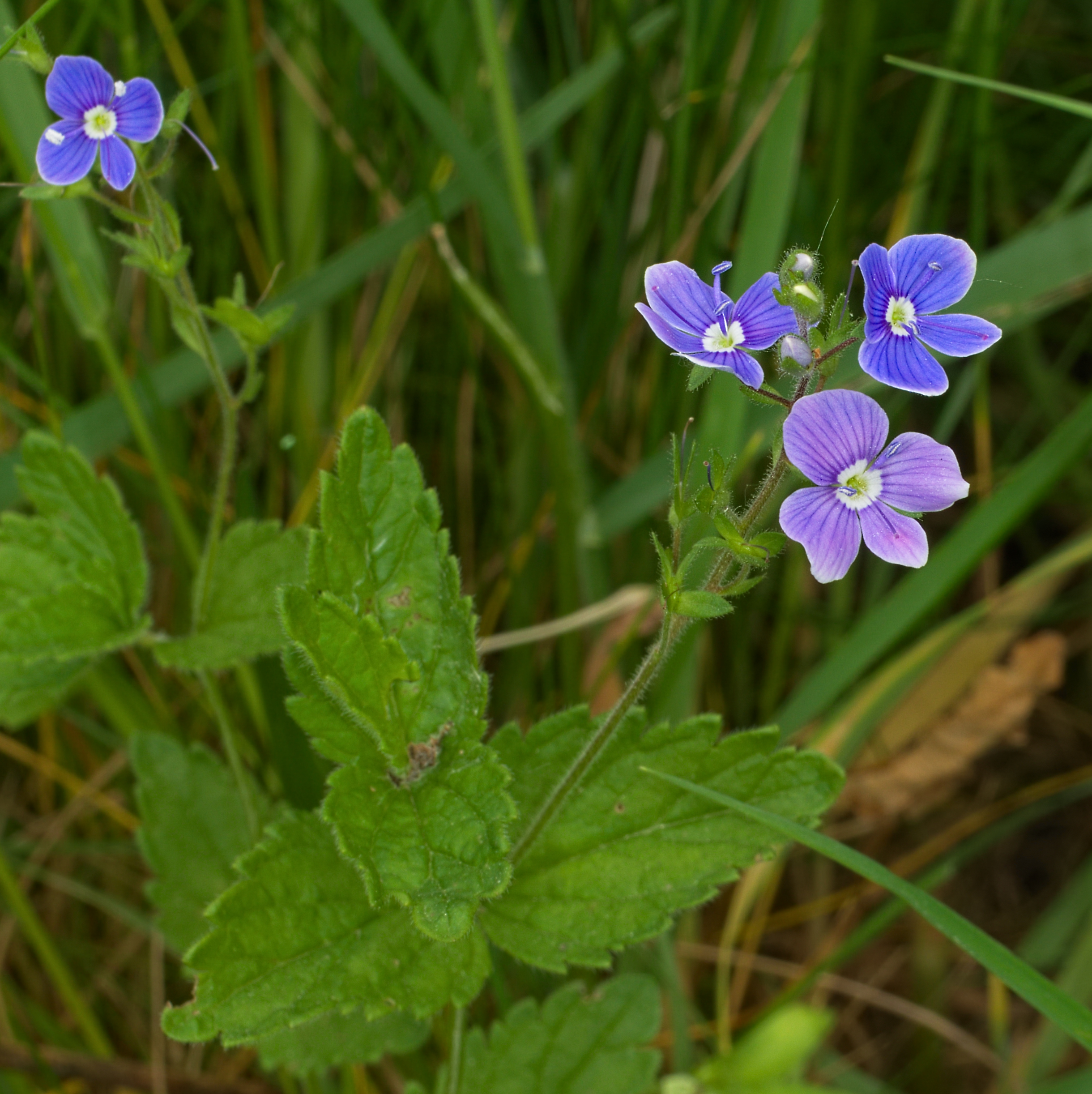 Germander speedwell - Veronica chamaedrys. Taken in Buchklingen (Odenwald), Hesse, Germany.